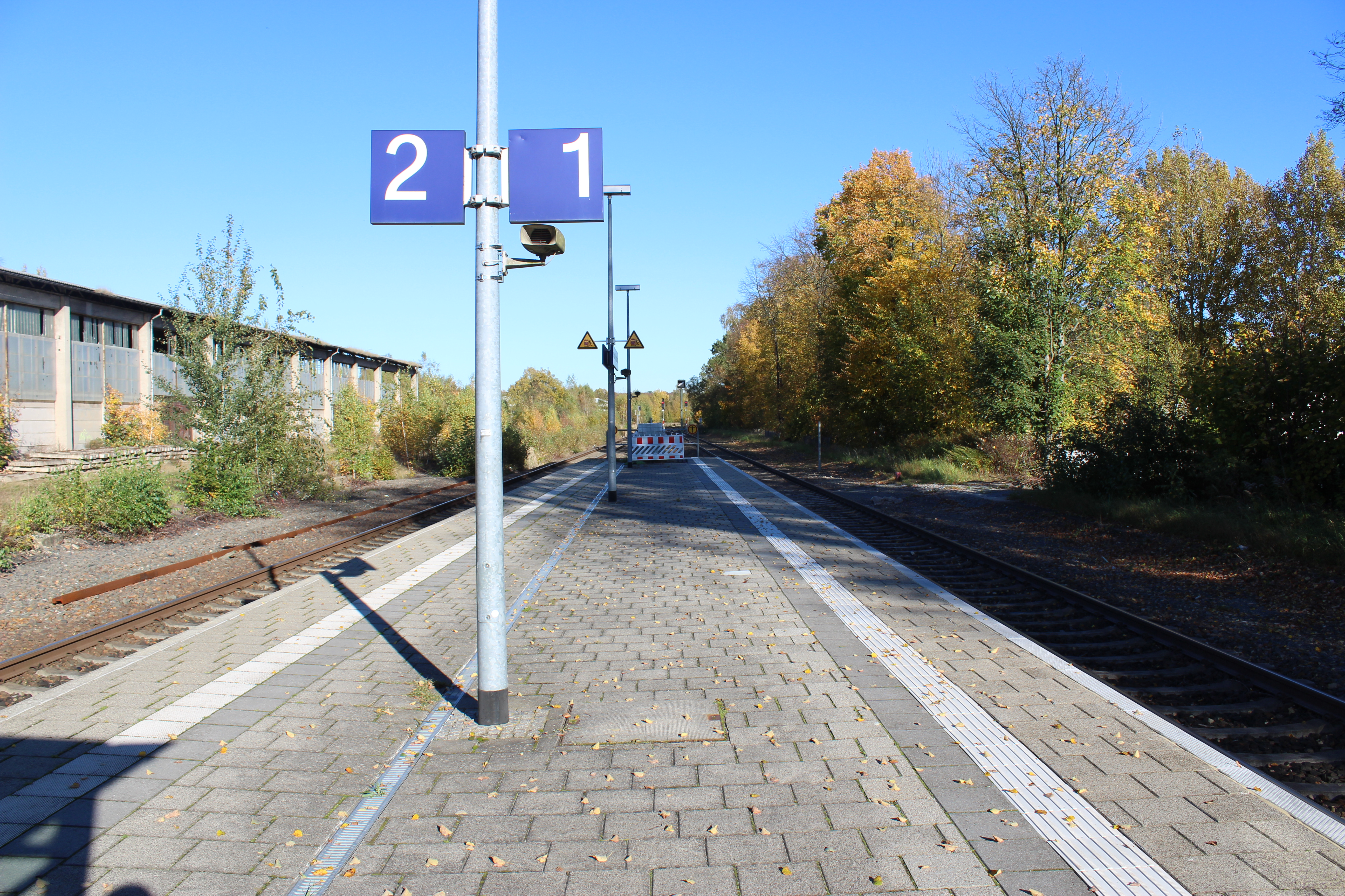 train station Hermsdorf-Klosterlausnitz, platforms